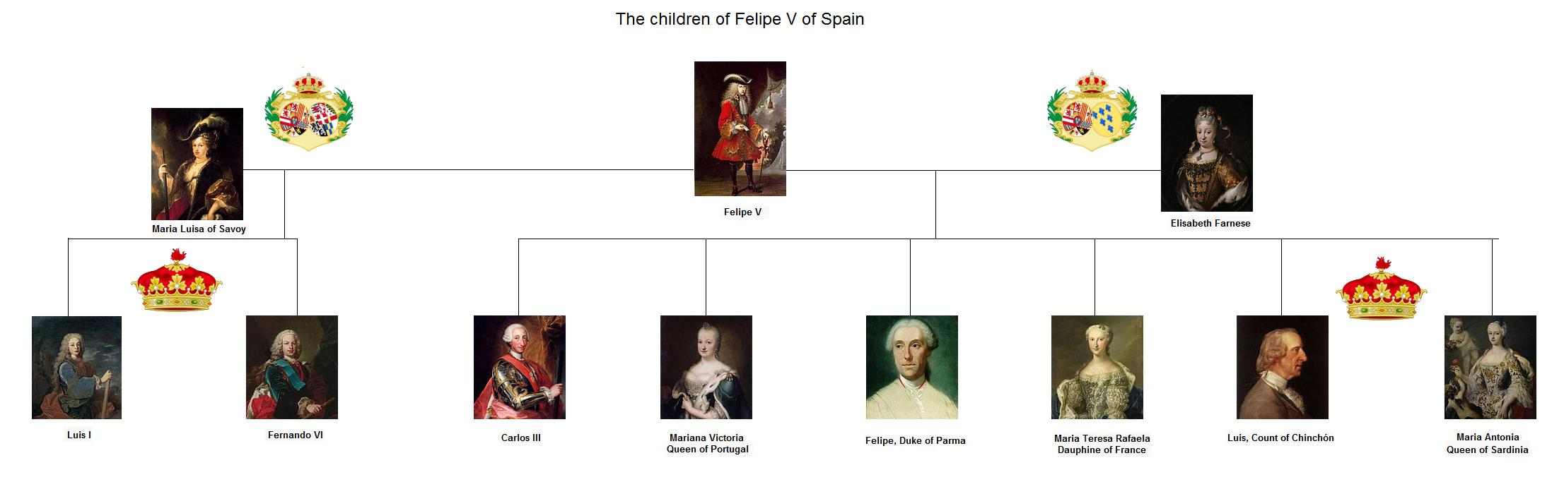 The children of Felipe V of Spain